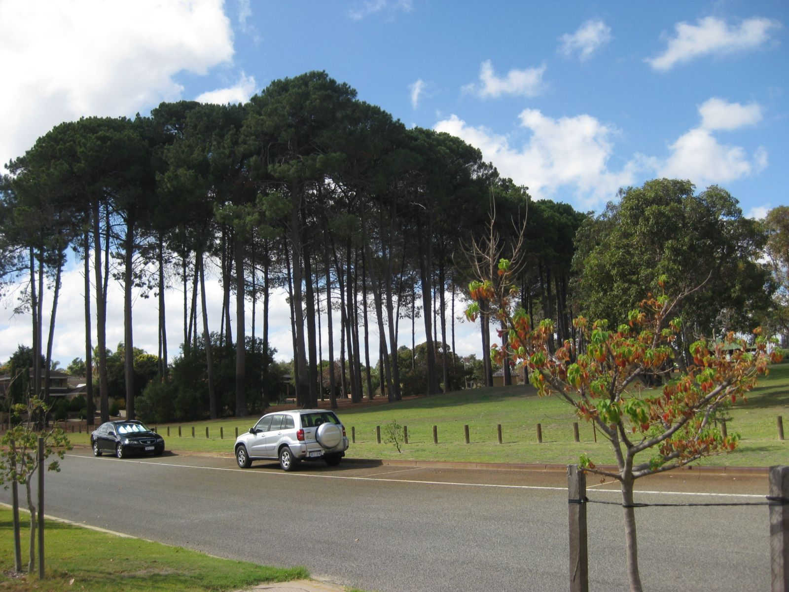 Hill Park on the corner of Jackson Avenue and Richardson Arcade in Winthrop, Western Australia.